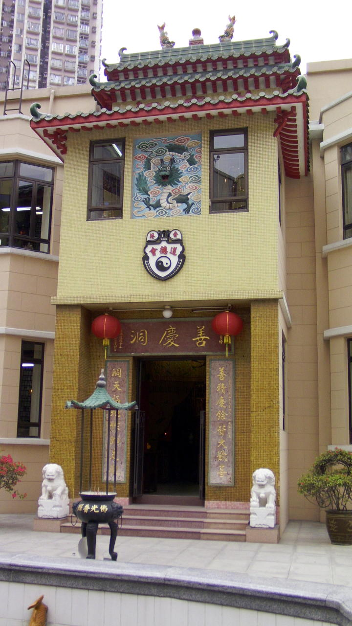 Main Hall _Gate_of_Tuen_Mun_Sin_Hing_Tung 中文（香港）: 香港新界屯門善慶洞主殿大門